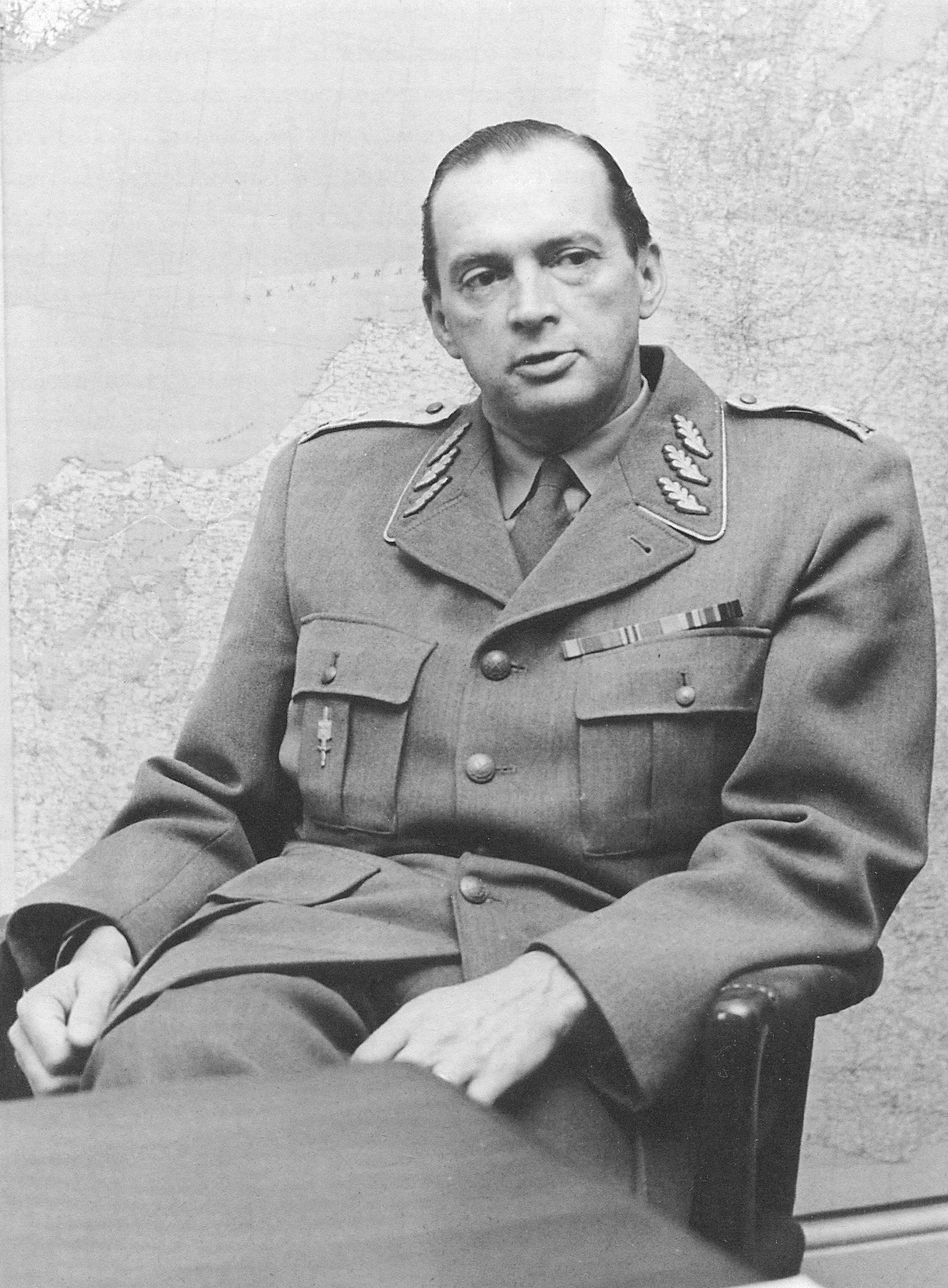 General Carl-Eric Almgren, chief of the Swedish Defence Staff 1961 and Commander-in-Chief of the Swedish Army 1969-76.